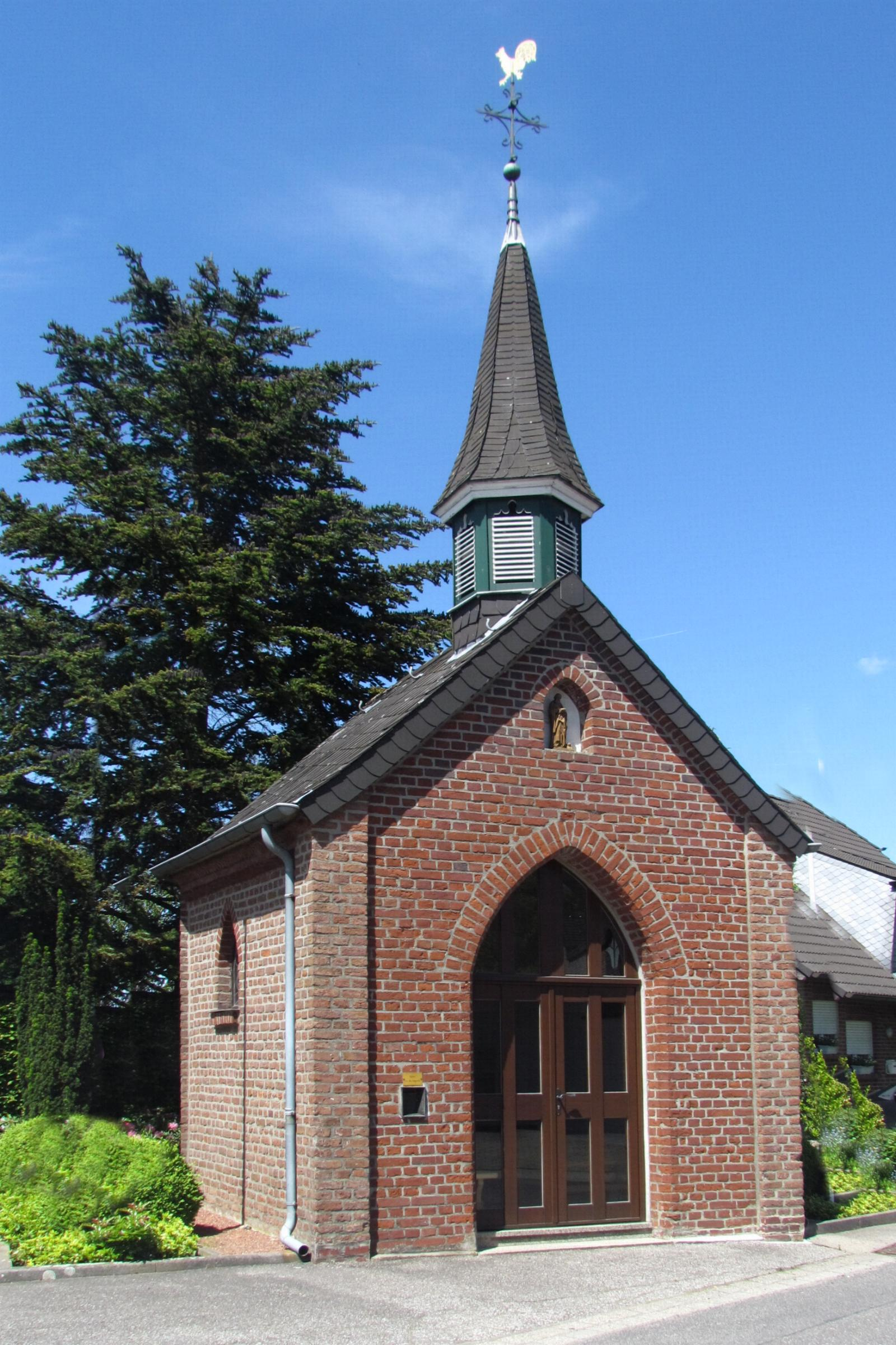 This is a photograph of an architectural monument.It is on the list of cultural monuments of Korschenbroich